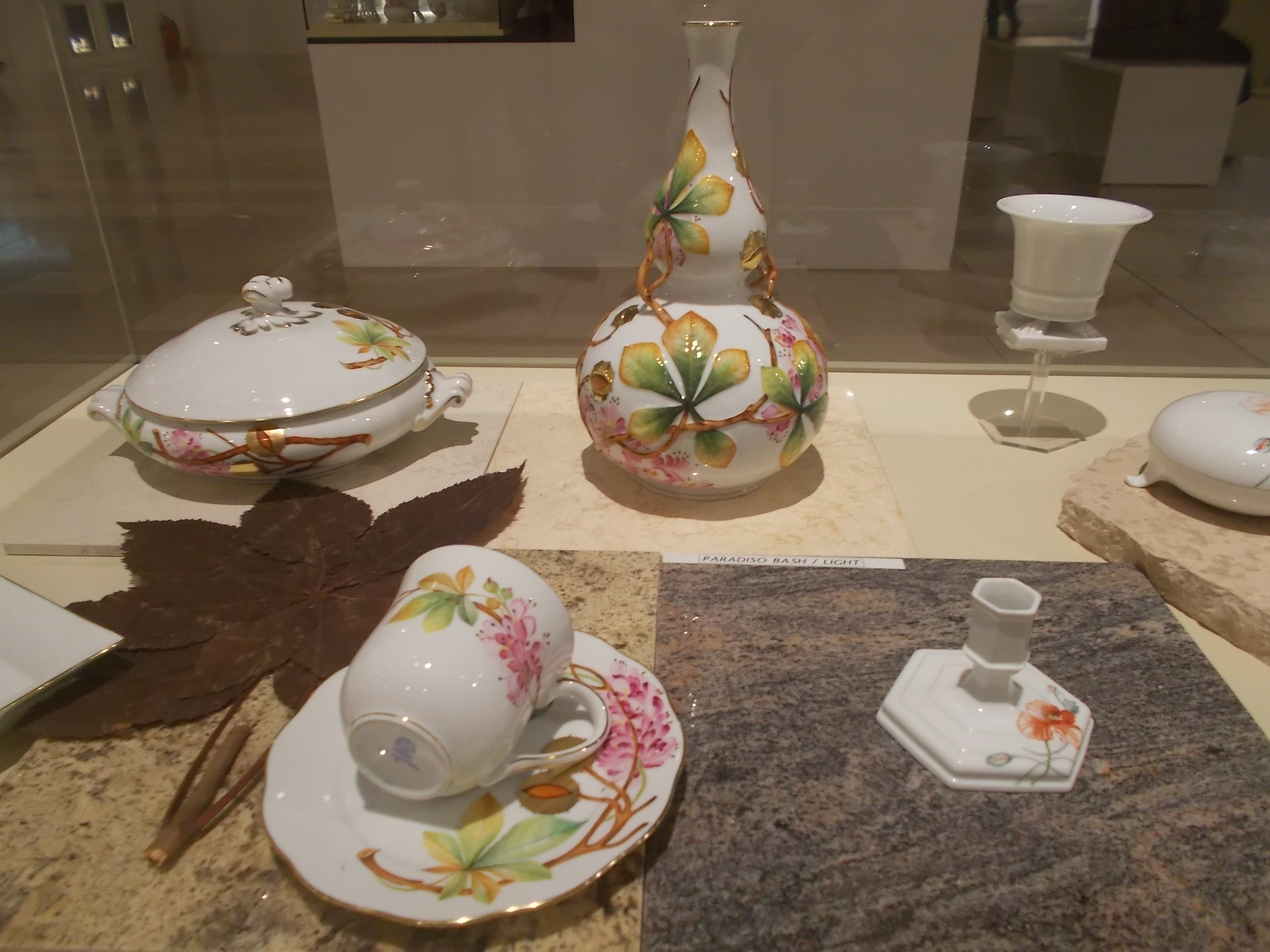 Bonbonniere. candlestick. Vase. 'Fragile Nature - Treasures of Herend'. (temporary exhibits). Hungarian Natural History Museum (HNHM). - Ludovika Sq 2-6., District VIII., Budapest.